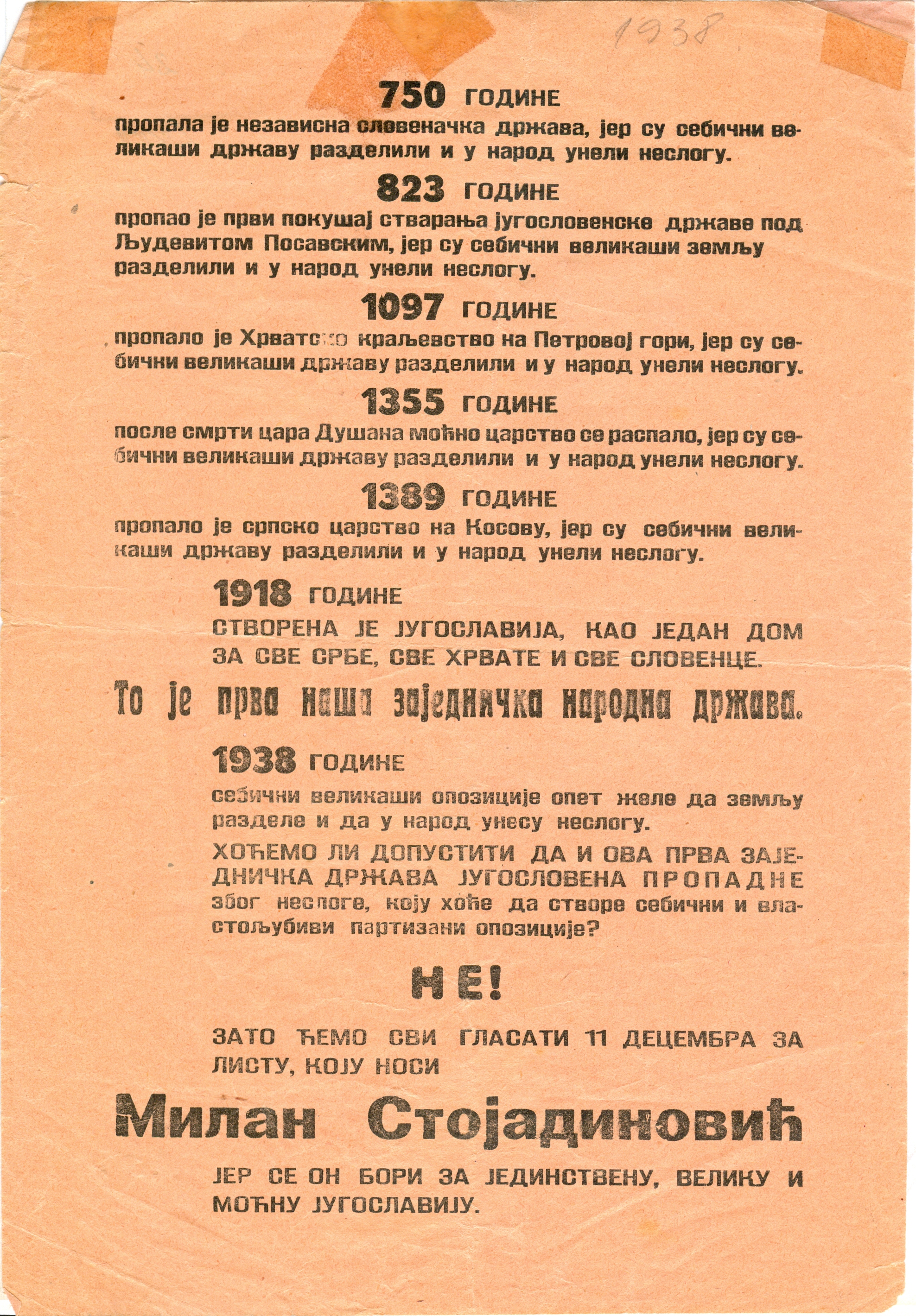 Milan Stojadinovic's poster for the 1938 elections Srpski (latinica): Predizborni poster Milana Stojadinovića za izbore 11.decembra 1938.